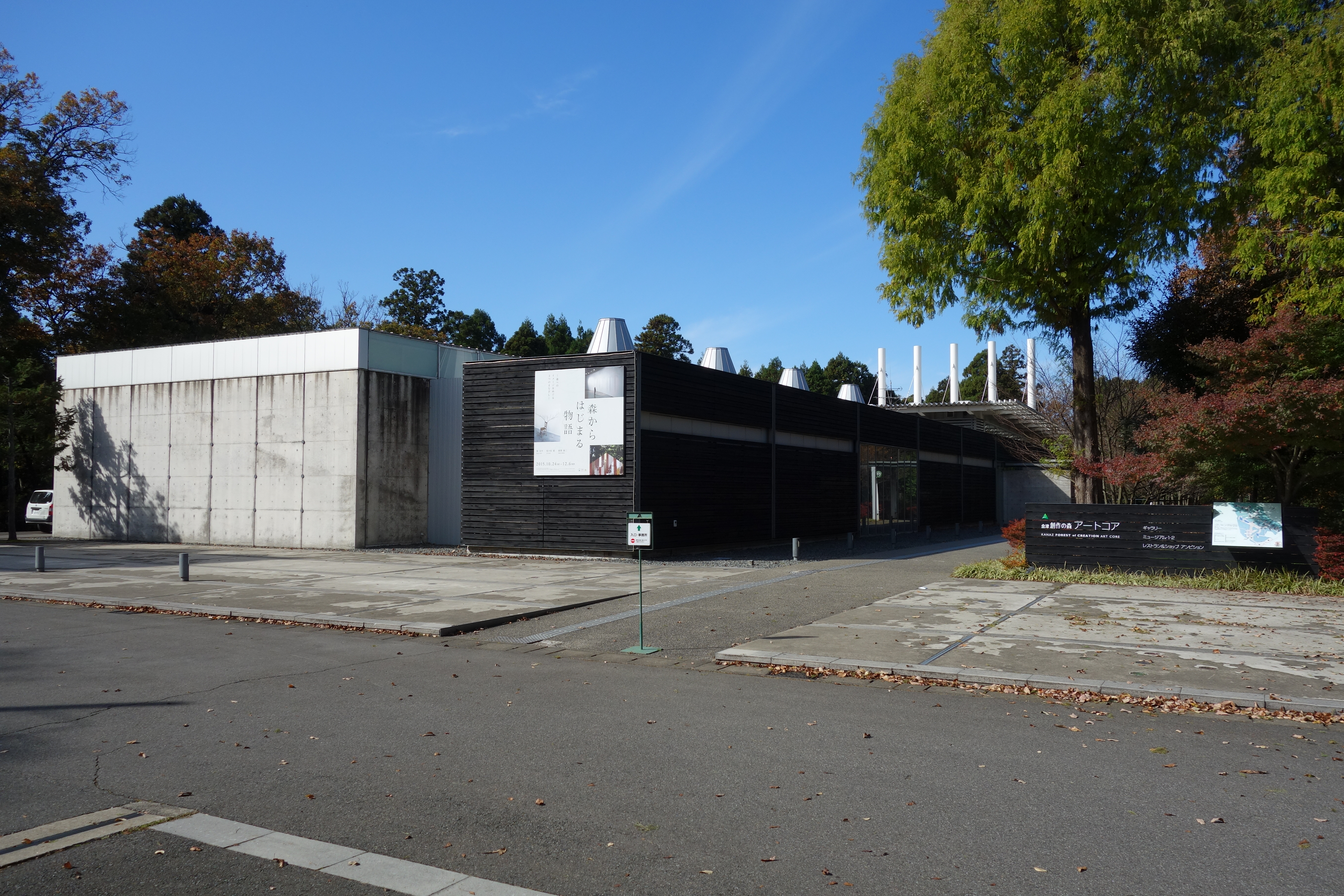 Art Core, Kanaz Forest of Creation (Awara-shi, Fukui Pref., Japan)